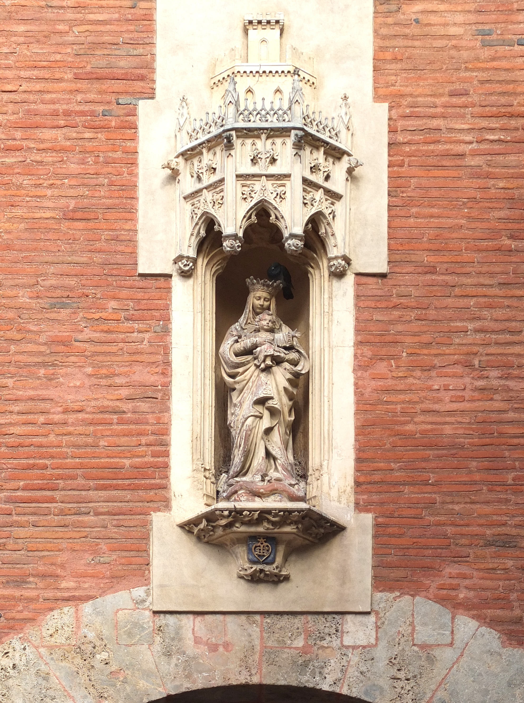 Virgin and Child statue above the southern side of Porte Notre-Dame, Castillet in Perpignan